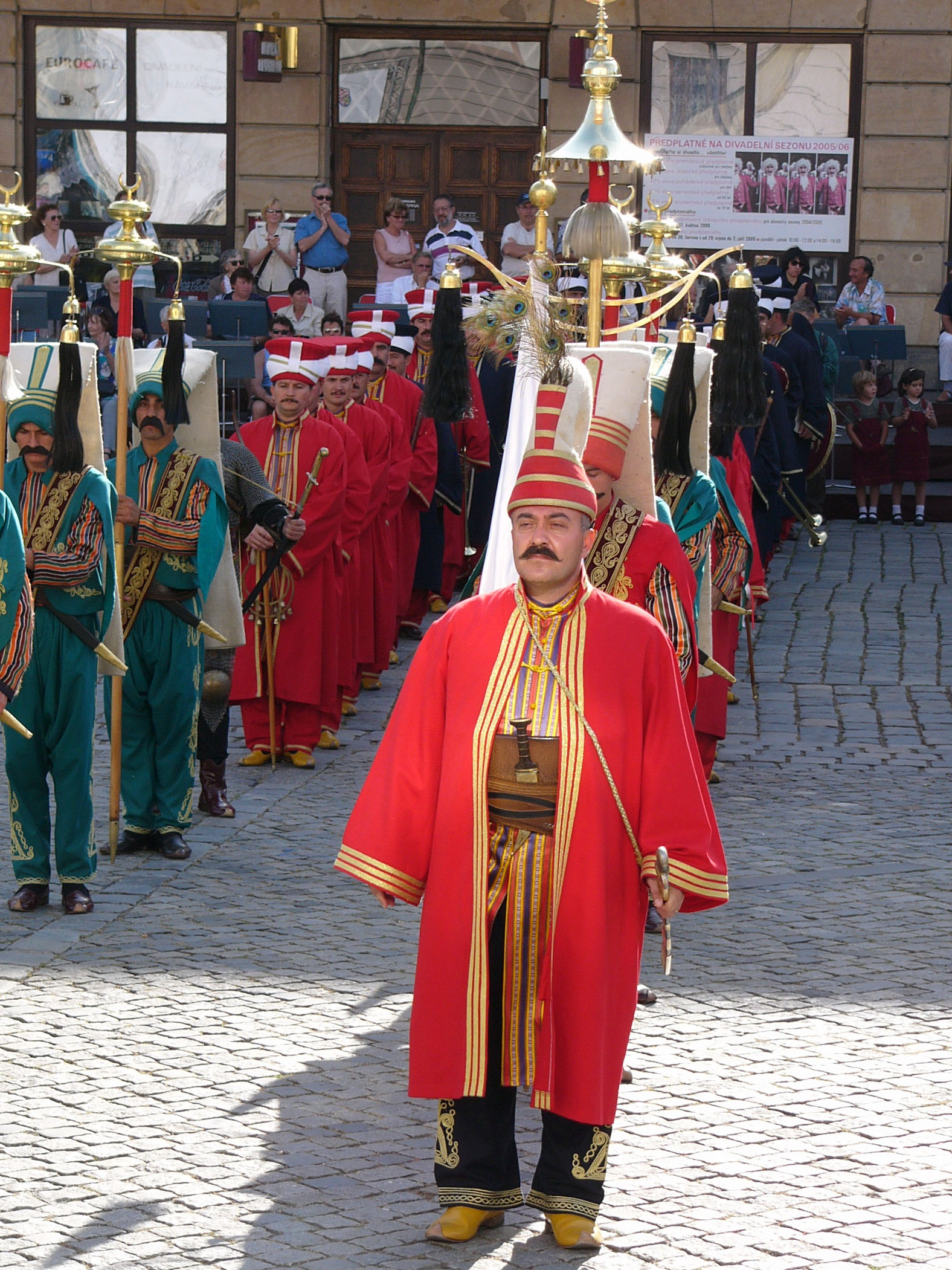 Janissary marching band.